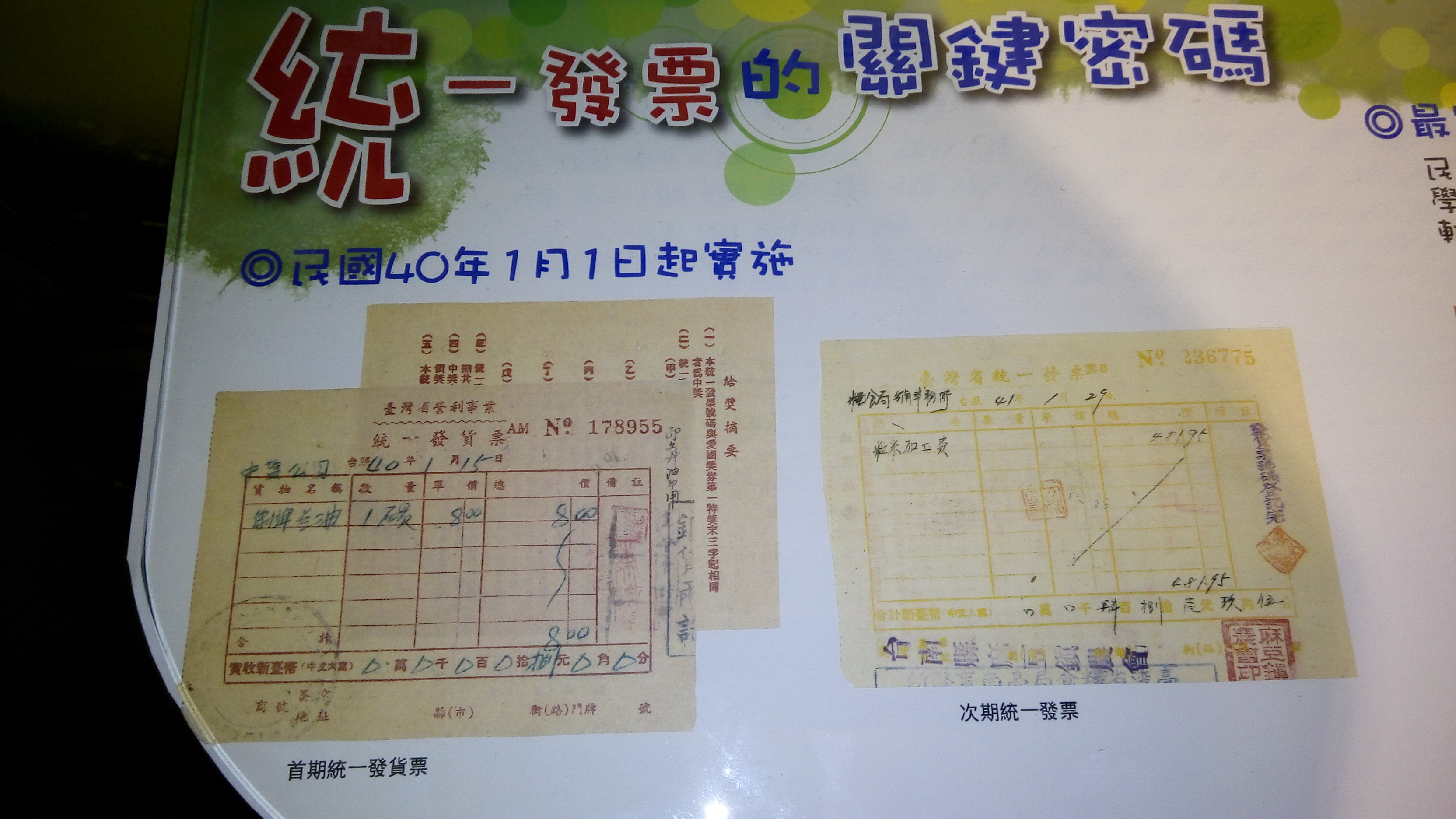 The 1st Phase of Uniform invoice issued by Taiwan MOF, photoed in Print Plant of MOF, Dali District, Taichung City, Taiwan